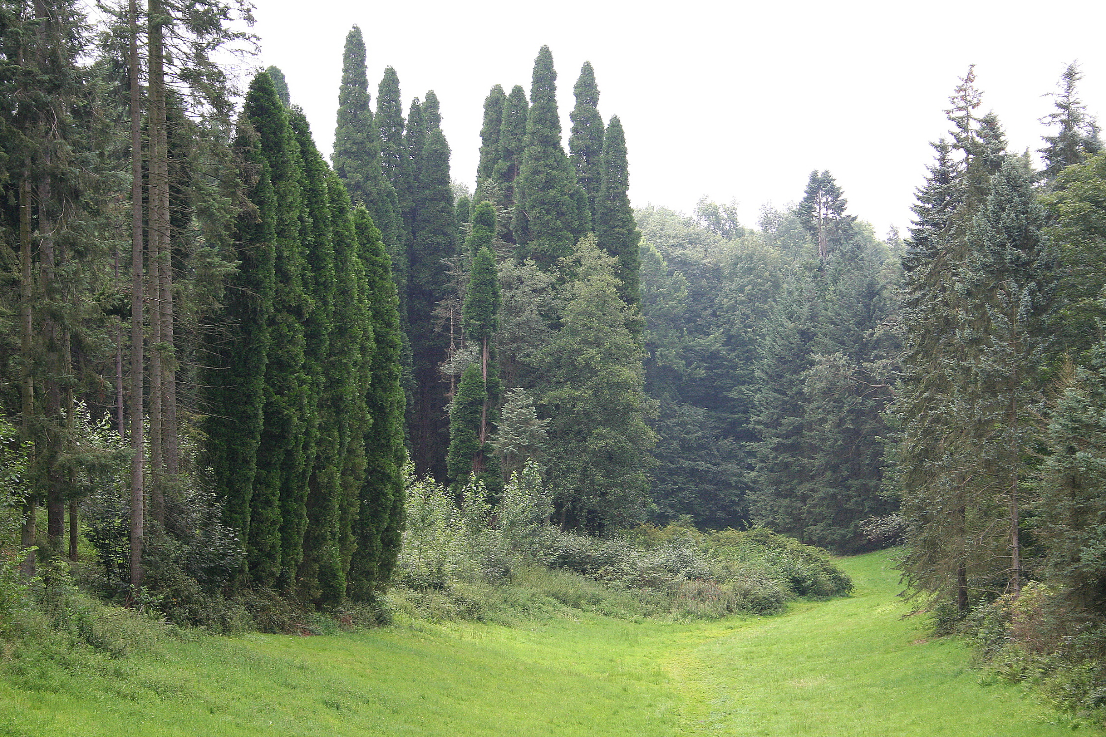 Tervuren Arboretum (Belgium).